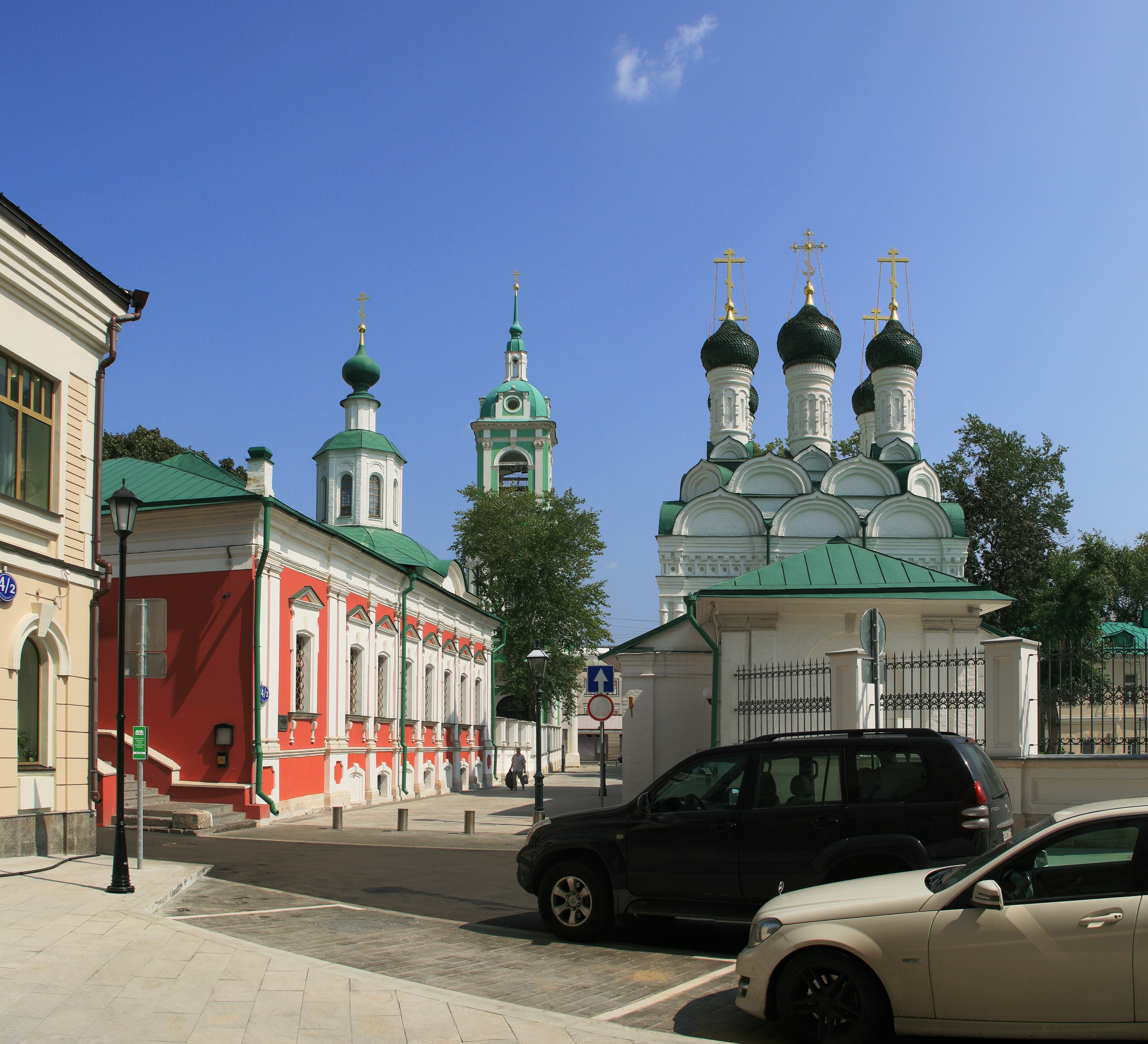 Chernigovsky lane with two churches of: Saint John the Baptist pod Borom and Saint Michael and Saint Fyodor, Martyrs of Chernigov, Moscow, Russia